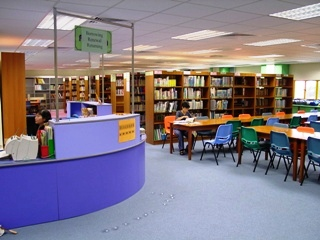 YOTTKPSS library